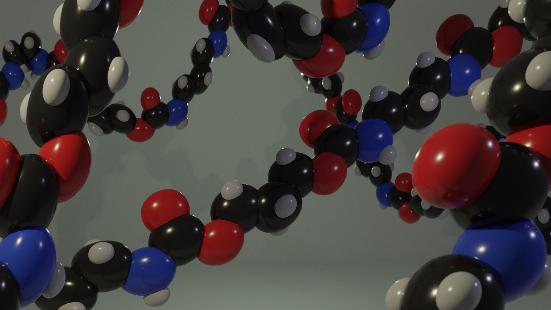 cartoon schematic of polymer macromolecules